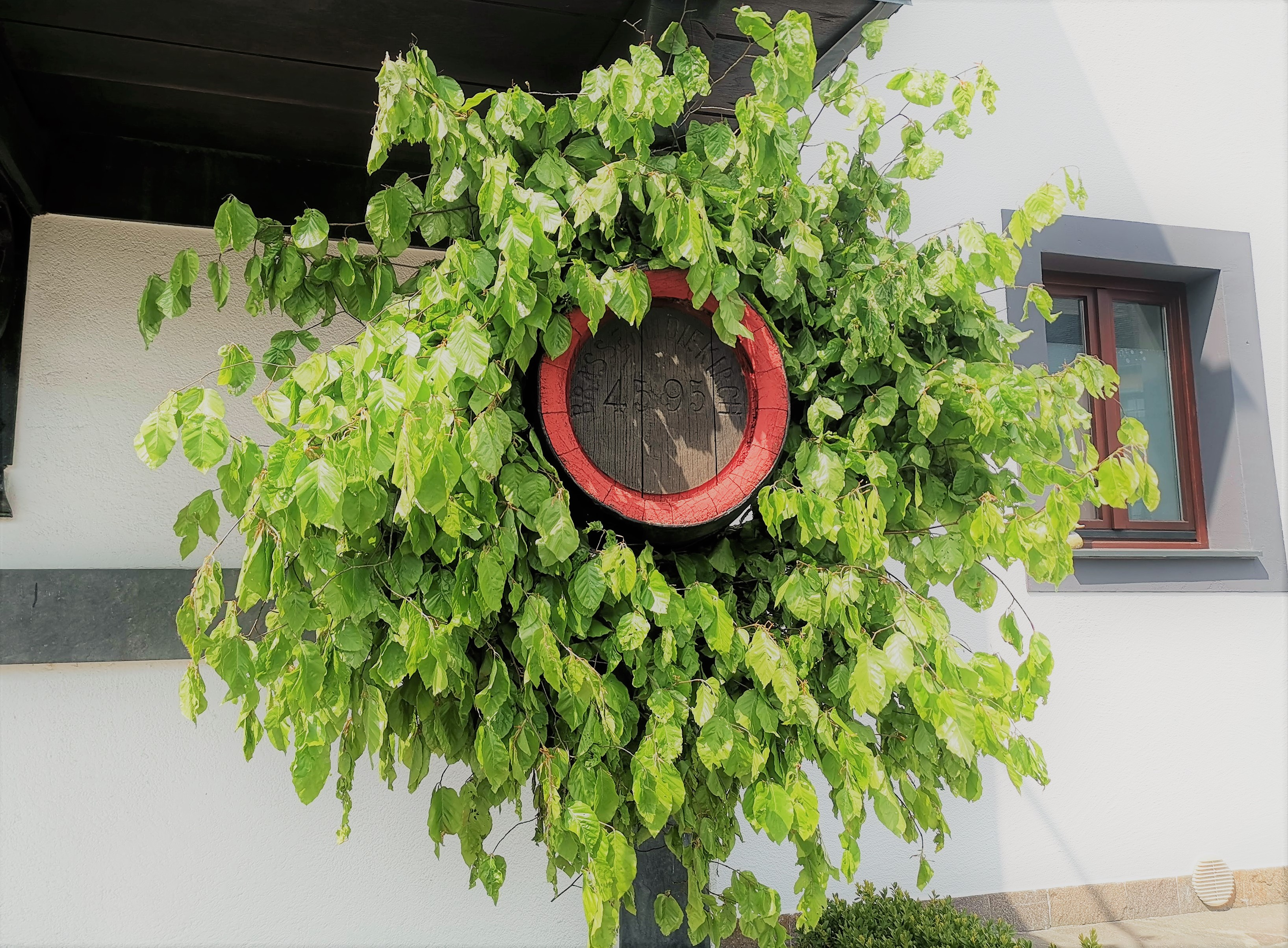 May wreath in Wahlhausen (Luxembourg), in front of Restaurant "Beim Bertchen".